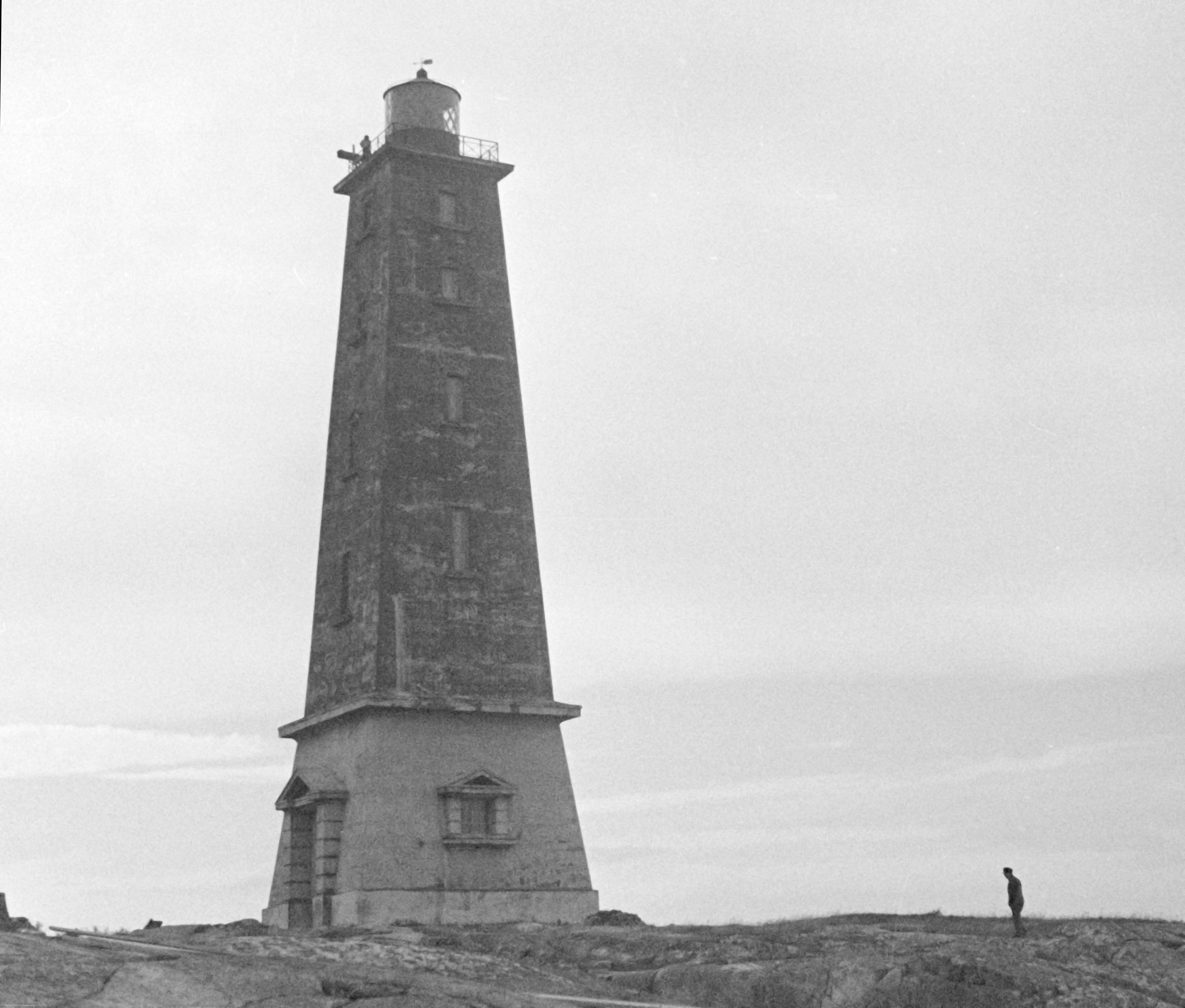 The Lågskär Lighthouse. Picture taken between 1939-1945